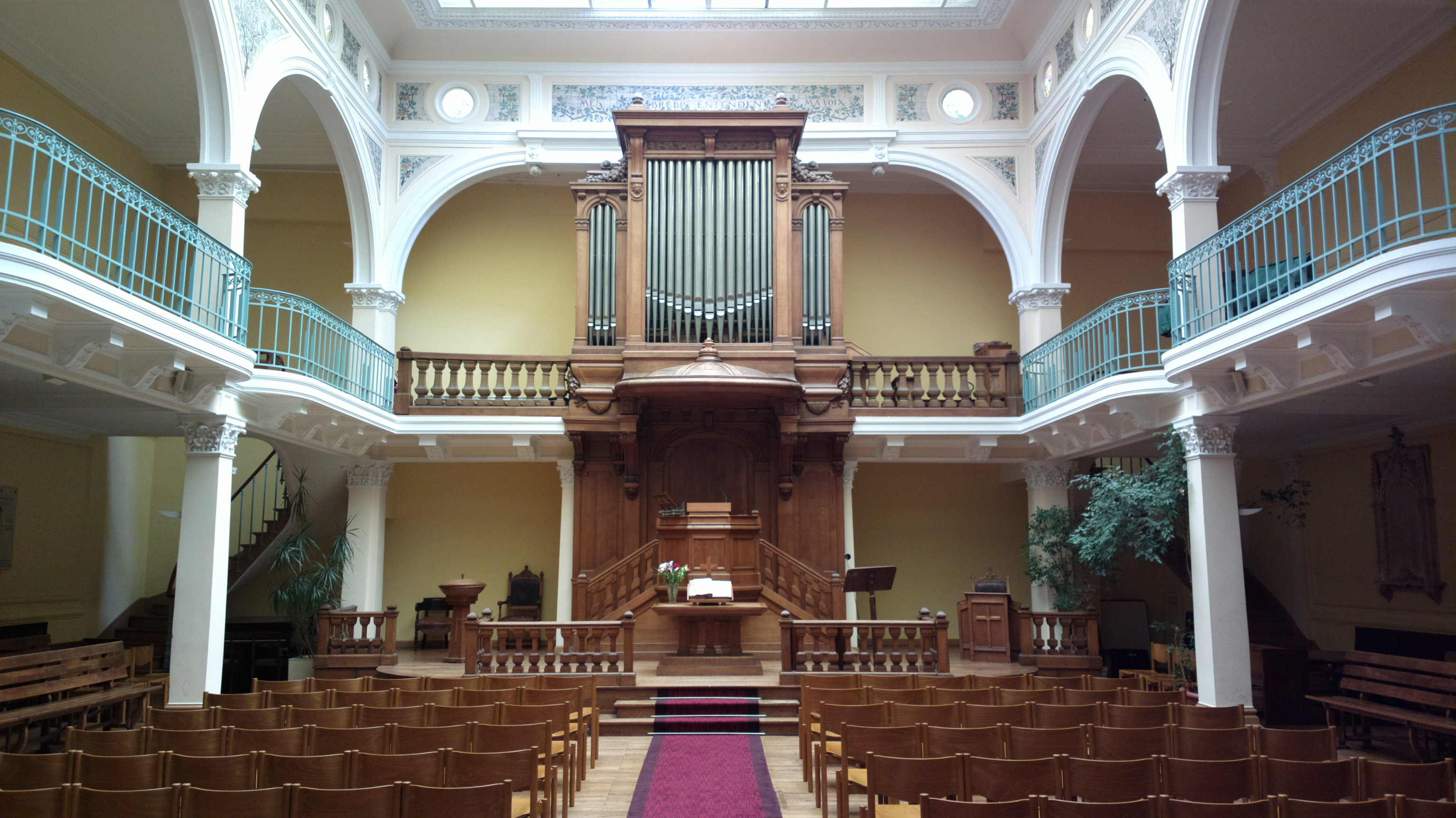 Protestant church Foyer de l'Âme